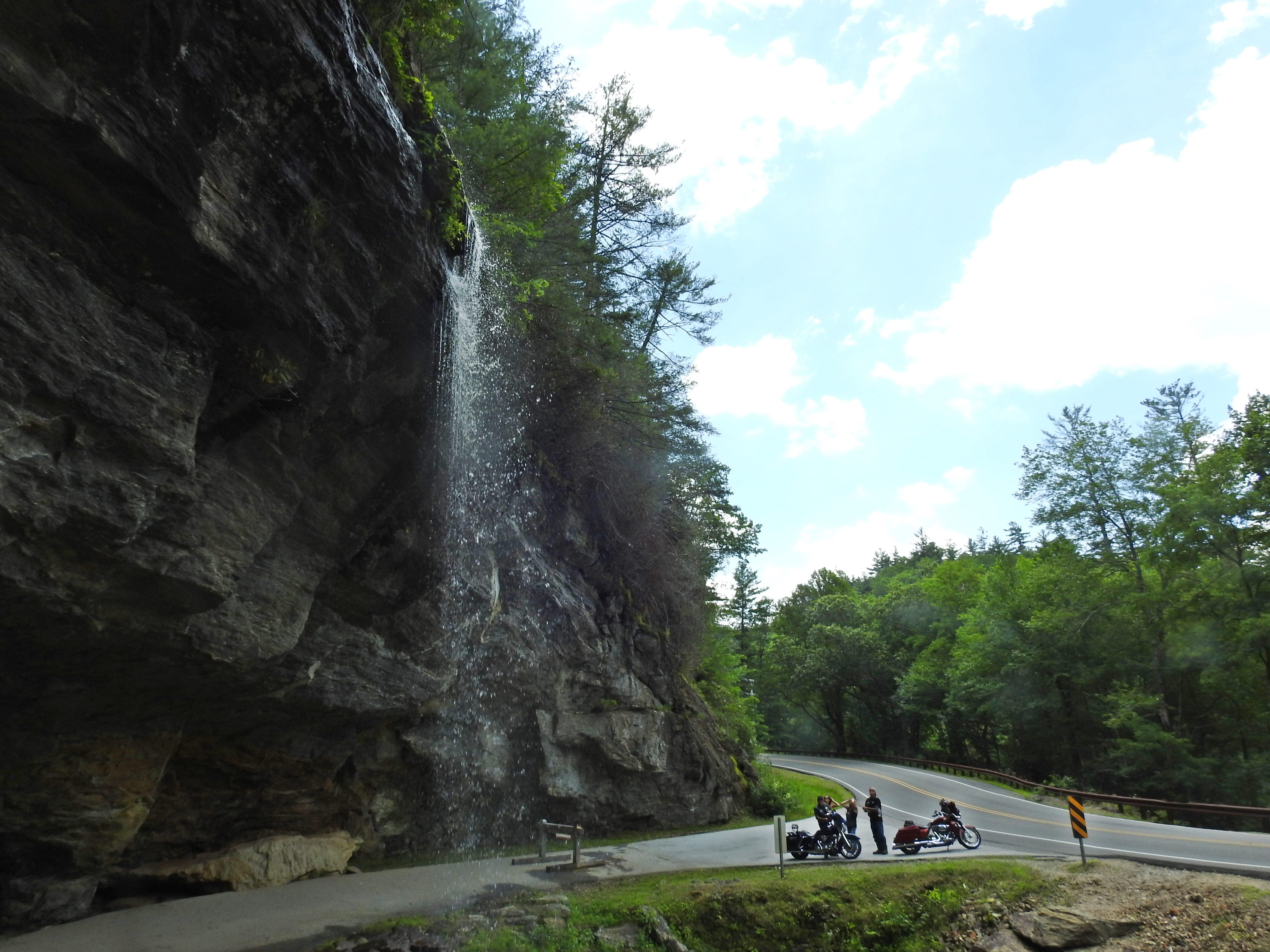 Bridal Veil Falls in Macon County. Some motorcyclists enjoy the view. The road is US Route 64.